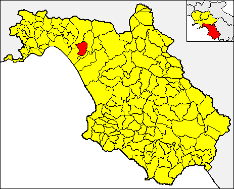 Locator map of the municipality of Montecorvino Pugliano (red) within the Province of Salerno